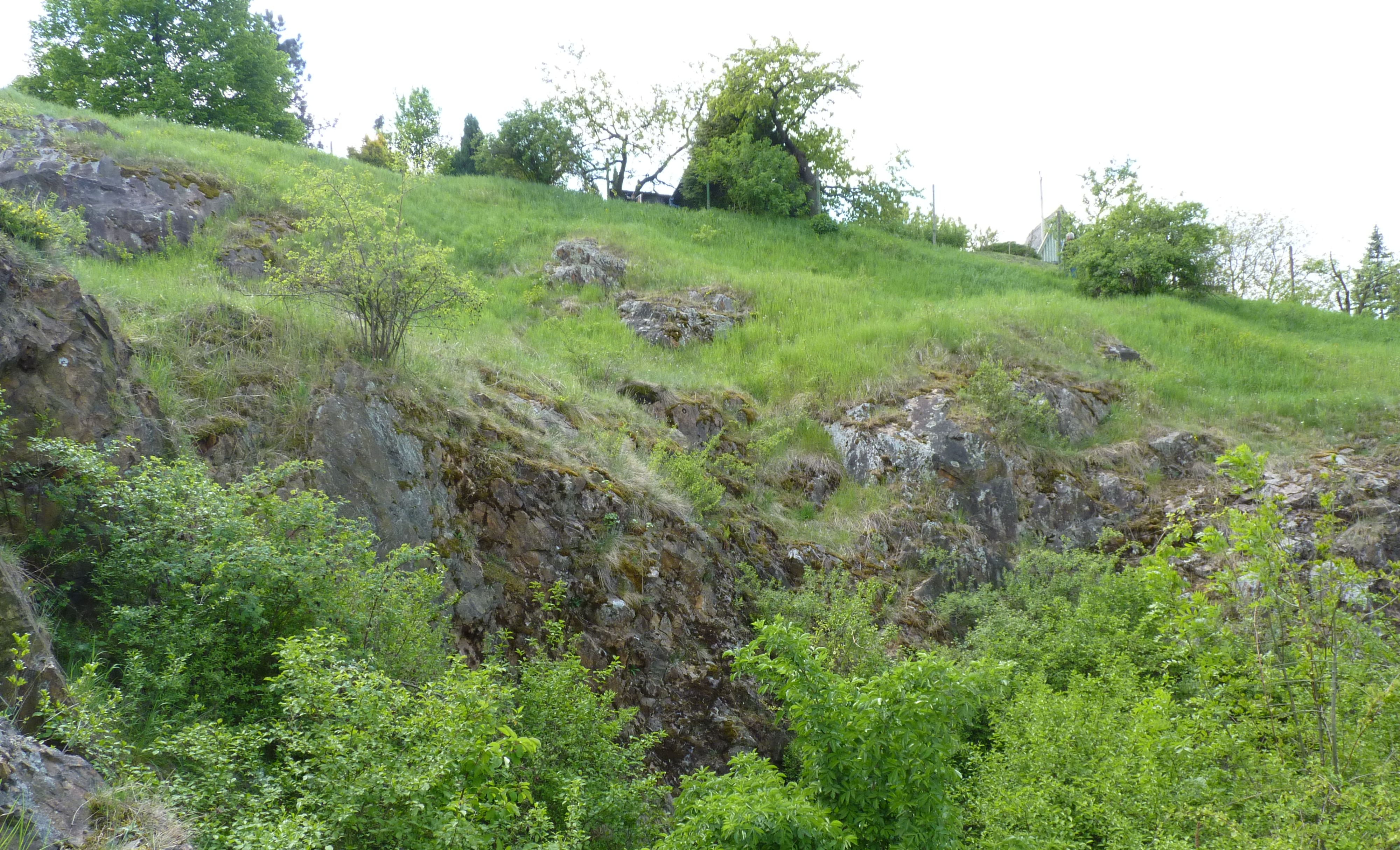 Natural monument Medlánecká skalka, Brno-Medlánky, South Moravian Region, Czech Republic